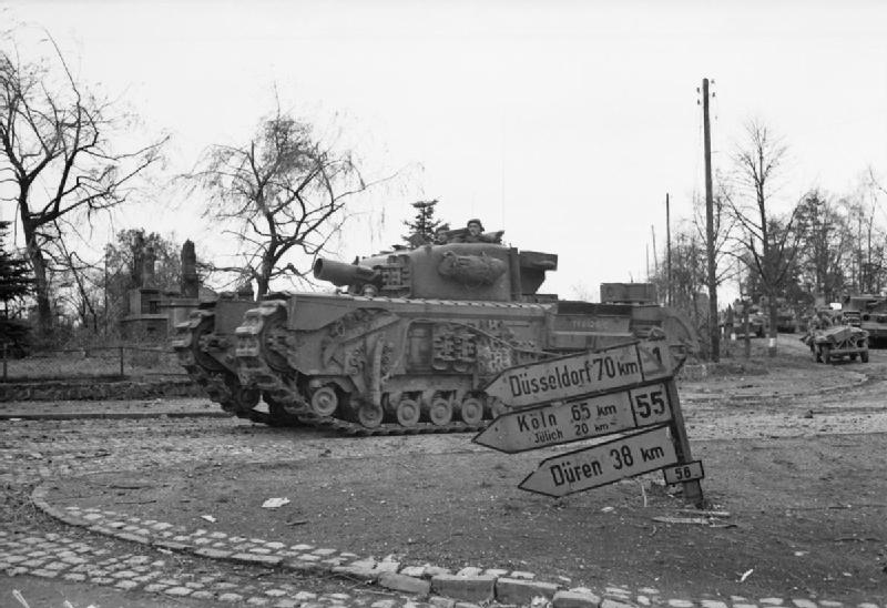 The British Army in North-west Europe 1944-45 Churchill AVRE entering Geilenkirchen, 19 November 1944.